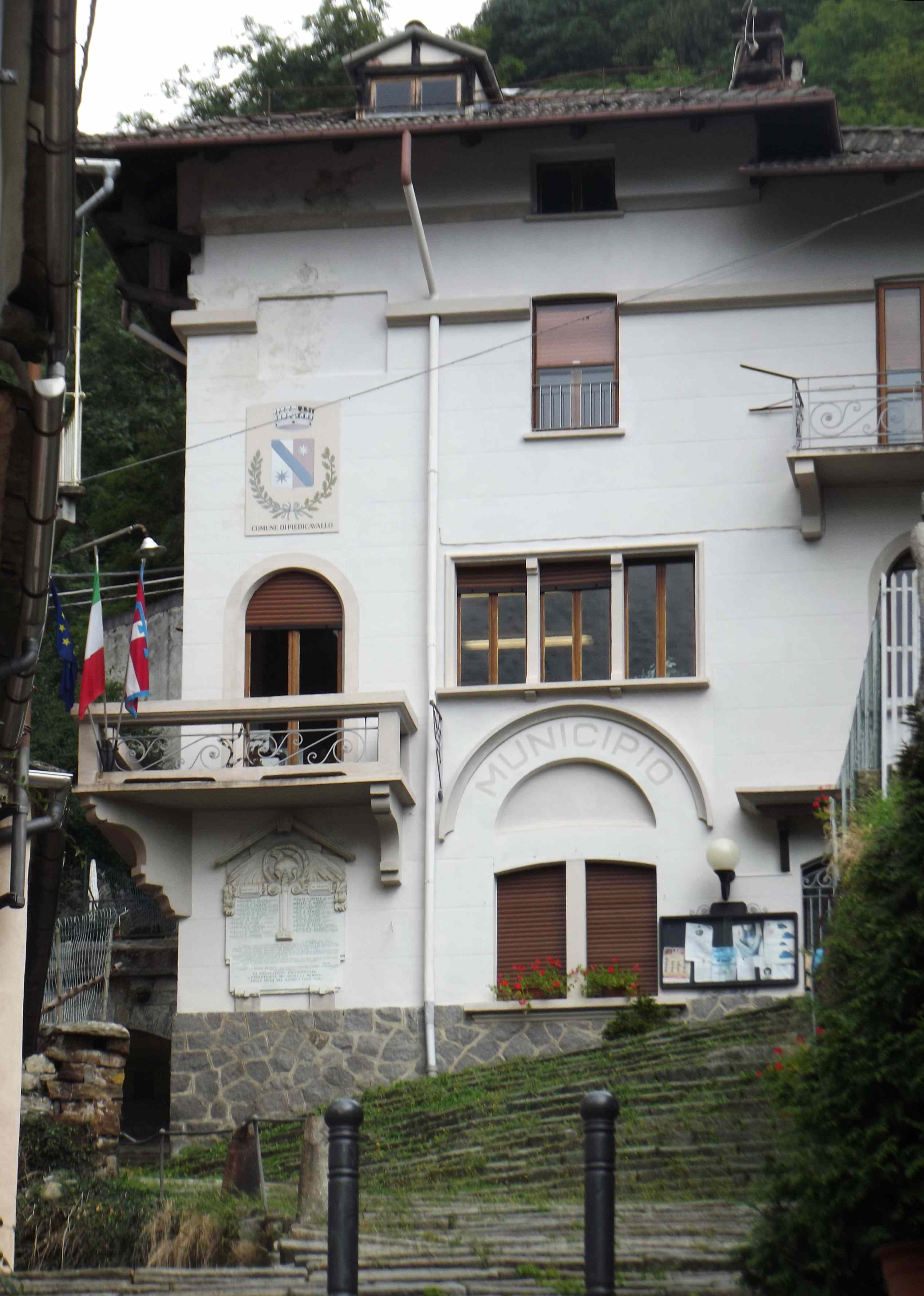 Piedicavallo (BI, Italy): town hall